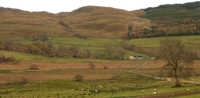 Glasvaar from across the glen.